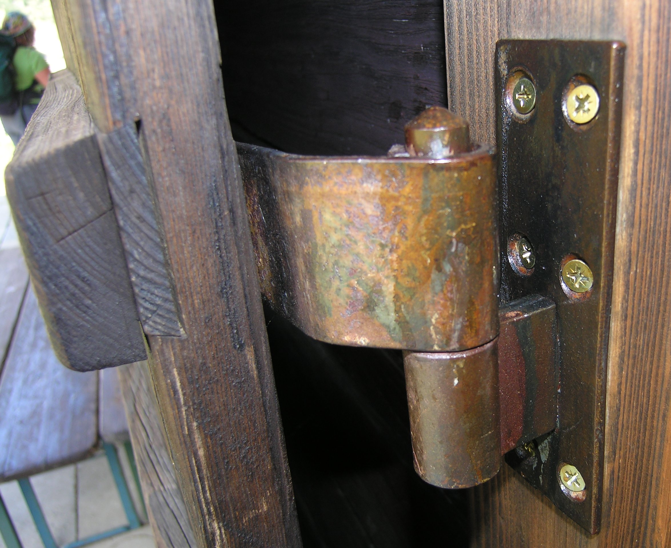 The two part iron hinge